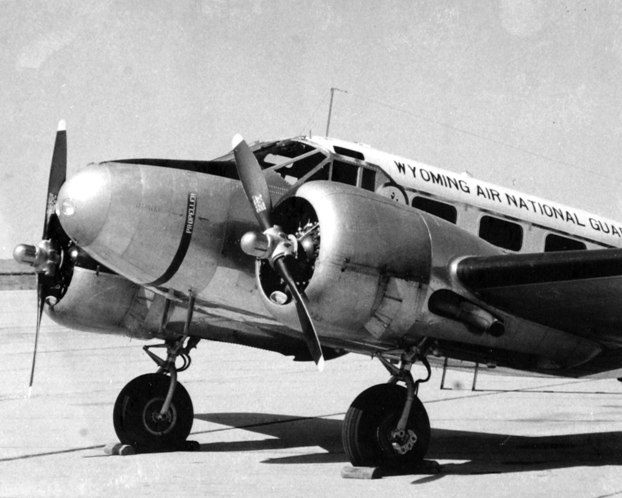 U.S. Air Force Beechcraft C-45 Expeditor from the 153rd Fighter Group, Wyoming Air National Guard. The 153rd FG flew the C-45 from 1953 to 1961.